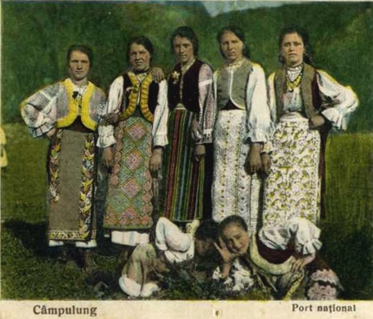 Romanians from Câmpulung Moldovenesc, south Bukovina (Bucovina), old postcard.